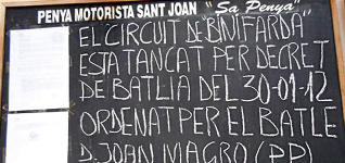 photo i took myself